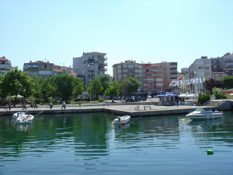 Silivri, from Theodisce, 2006